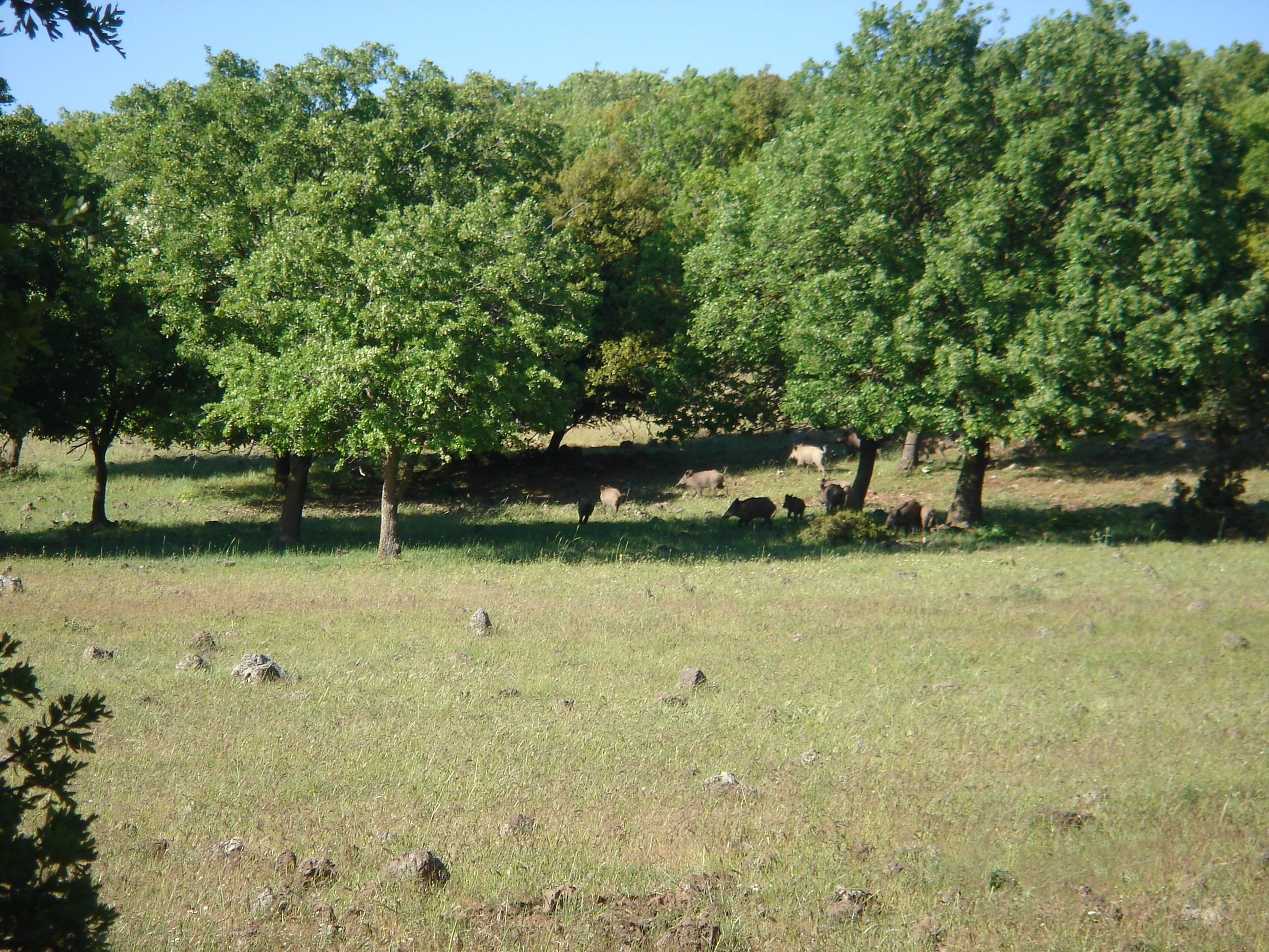 Wild boars running away at Odem Forest Reserve in the northern Golan Heights.